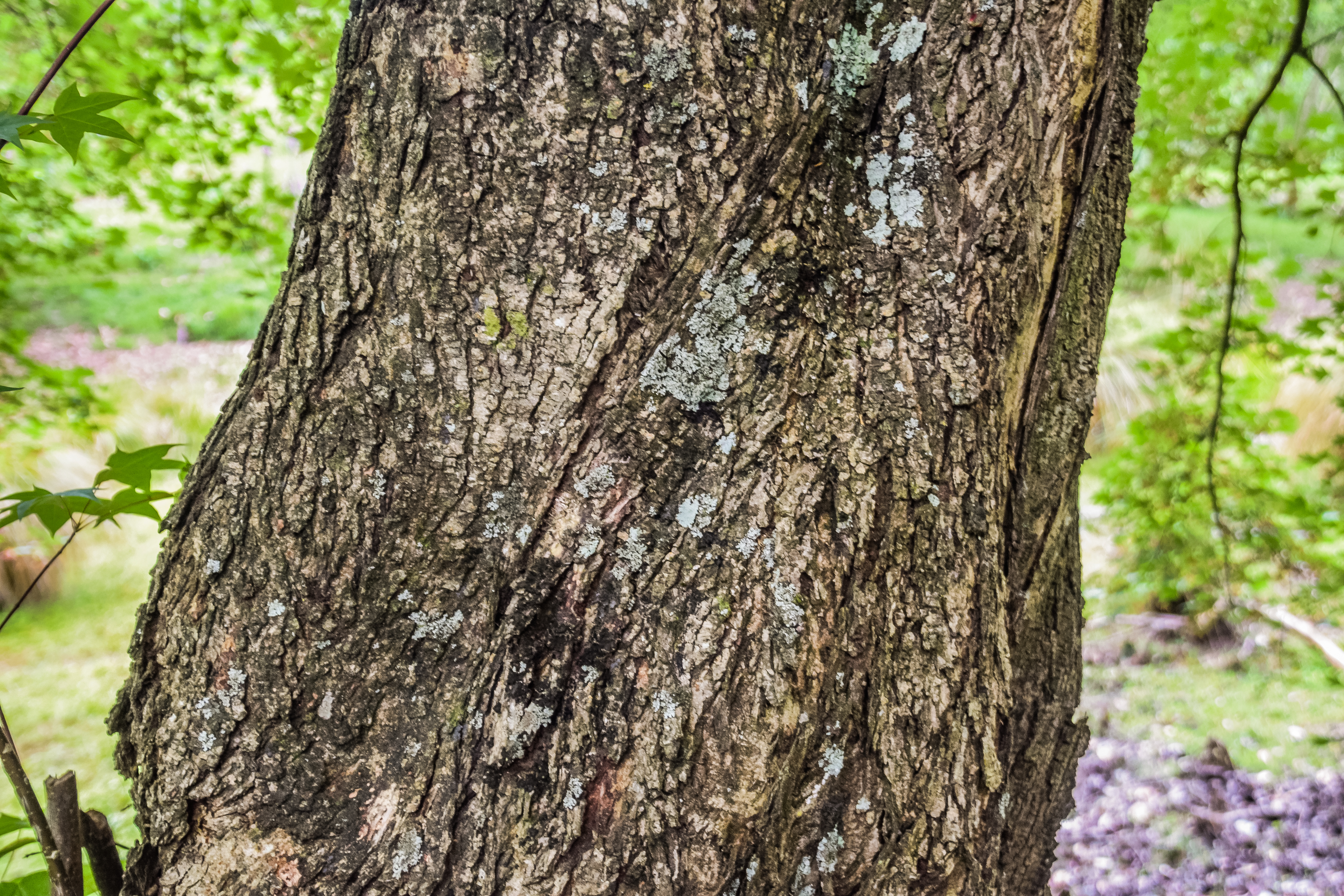 Acer cappadocicum ssp. sinicum in Hackfalls Arboretum, Gisborne Region, New Zealand